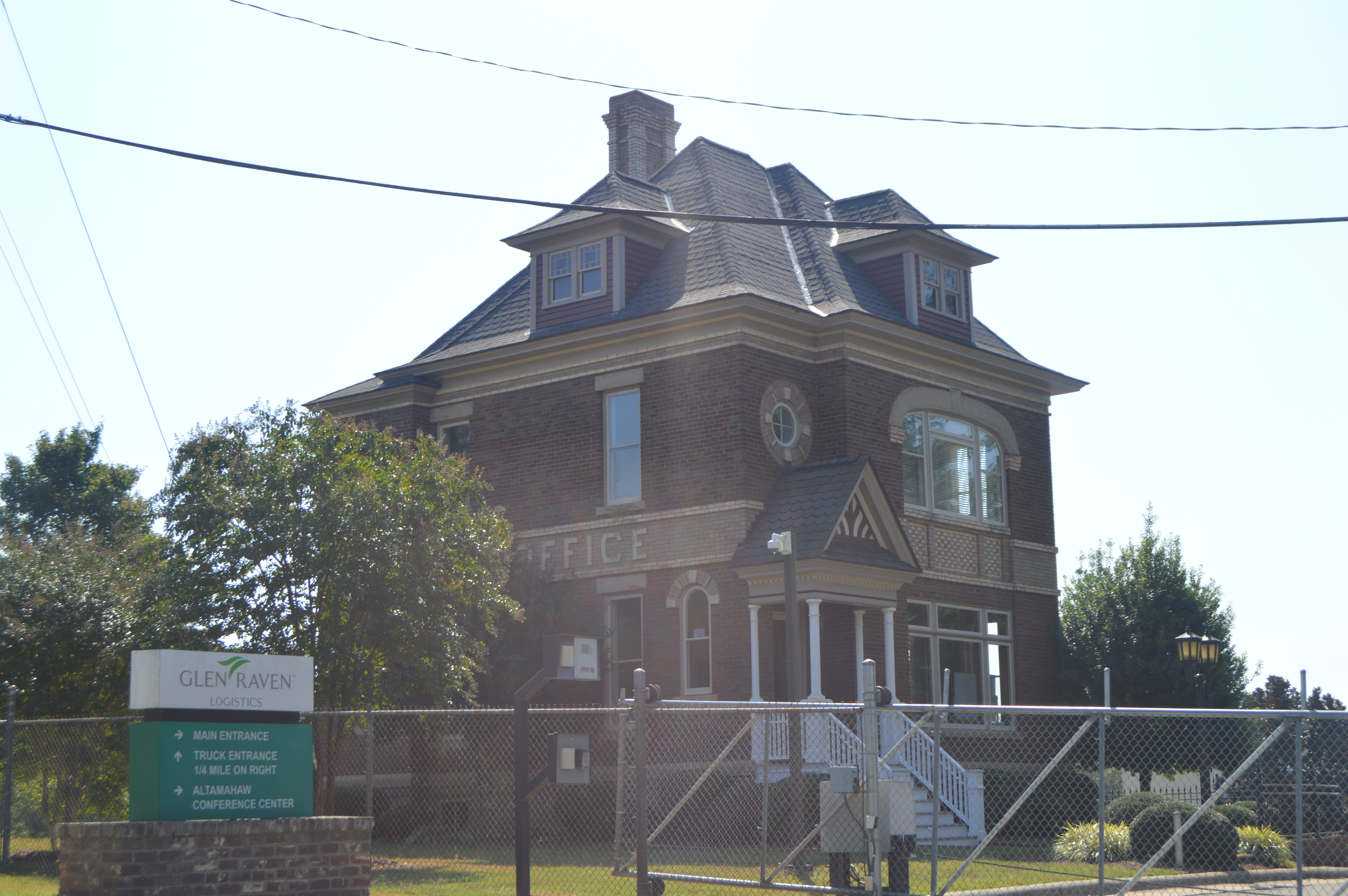 Sun-bleached view of the Altamahaw Mill Office, located on Altamahaw Union Ridge Road in Altamahaw, North Carolina, United States. Built in 1890, it is listed on the National Register of Historic Places.